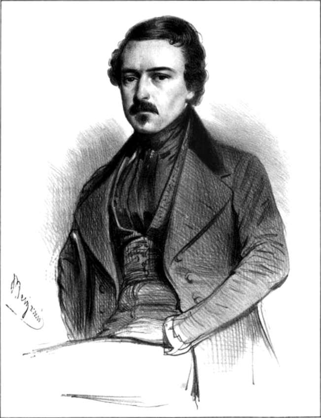 Drawing of Lockroy (1803-1891), French actor